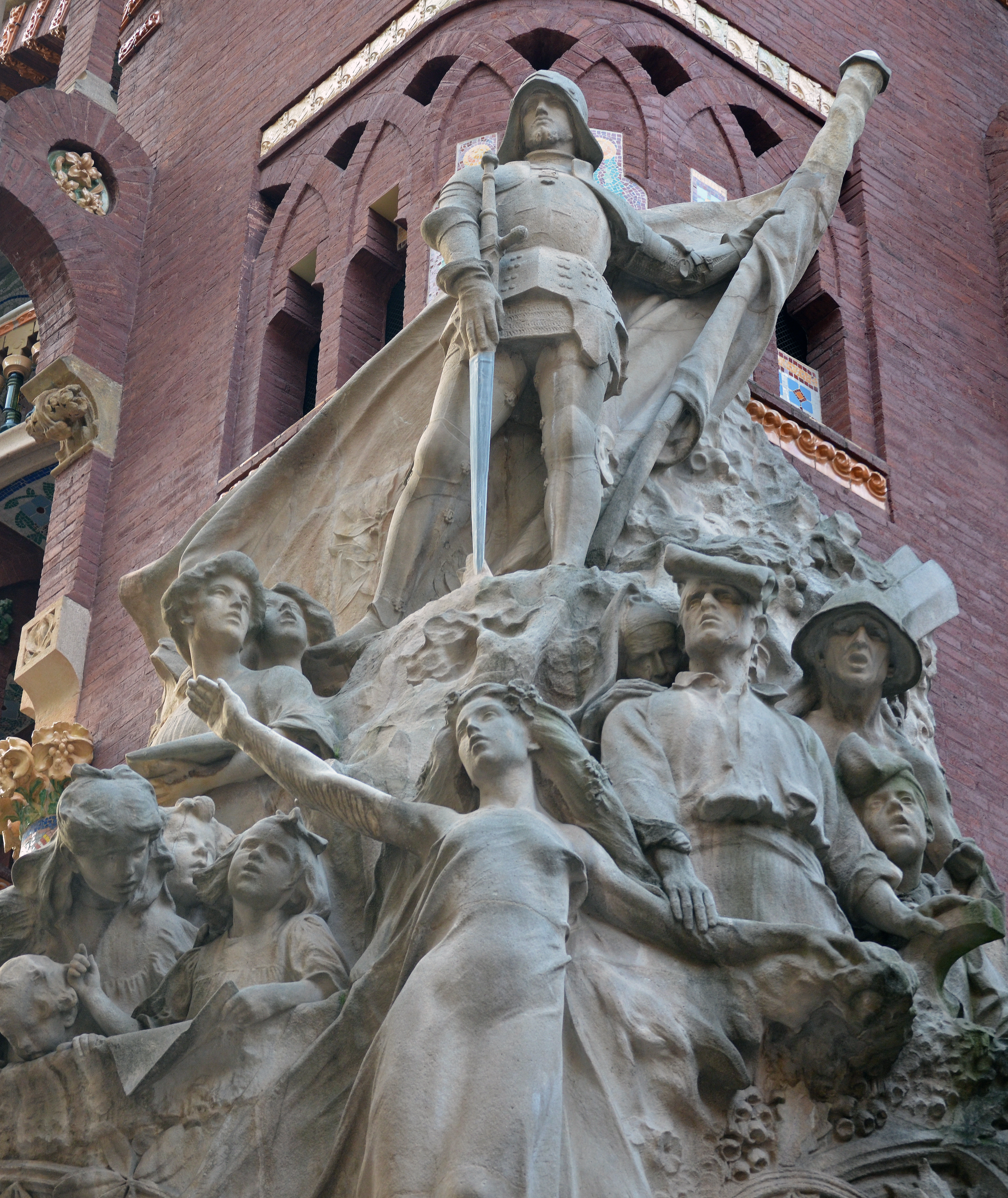 Palau de la Musica Catalana - Barcelona